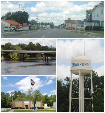 Collection of photos I took around Branford, Florida